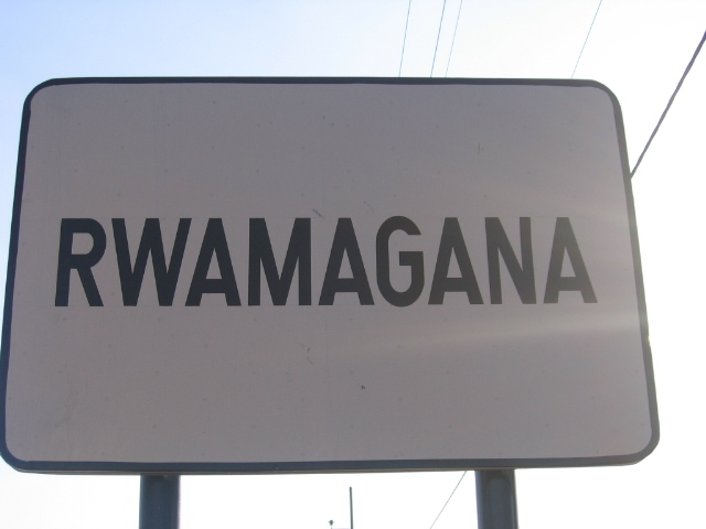 Sign of Rwamagana